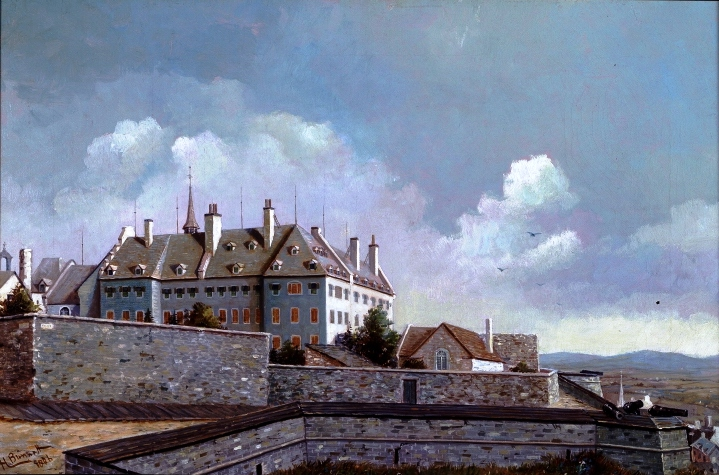 Painting, The Hotel Dieu, Quebec, Henry Richard S. Bunnett, 1886, Oil on canvas, 30.7 x 46.2 cm